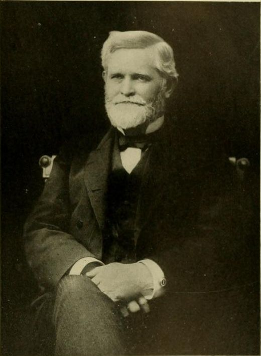 Charles D. Martin, member of the United States House of Representatives from Lancaster, Ohio.